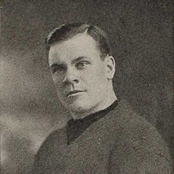 Image of Scotty Neil, punter and end for Vanderbilt University's football team.